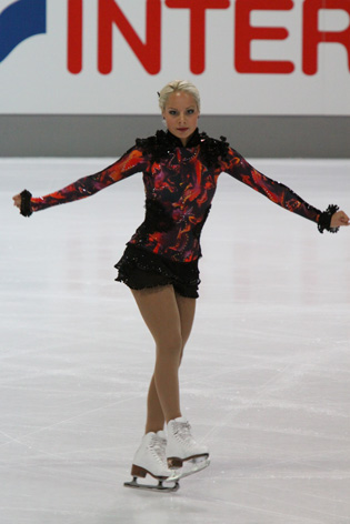 Elena Glebova at the 2009 Nebelhorn Trophy.